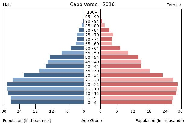 The population pyramid of Cabo Verde illustrates the age and sex structure of population and may provide insights about political and social stability, as well as economic development. The population is distributed along the horizontal axis, with males shown on the left and females on the right. The male and female populations are broken down into 5-year age groups represented as horizontal bars along the vertical axis, with the youngest age groups at the bottom and the oldest at the top. The shape of the population pyramid gradually evolves over time based on fertility, mortality, and international migration trends.